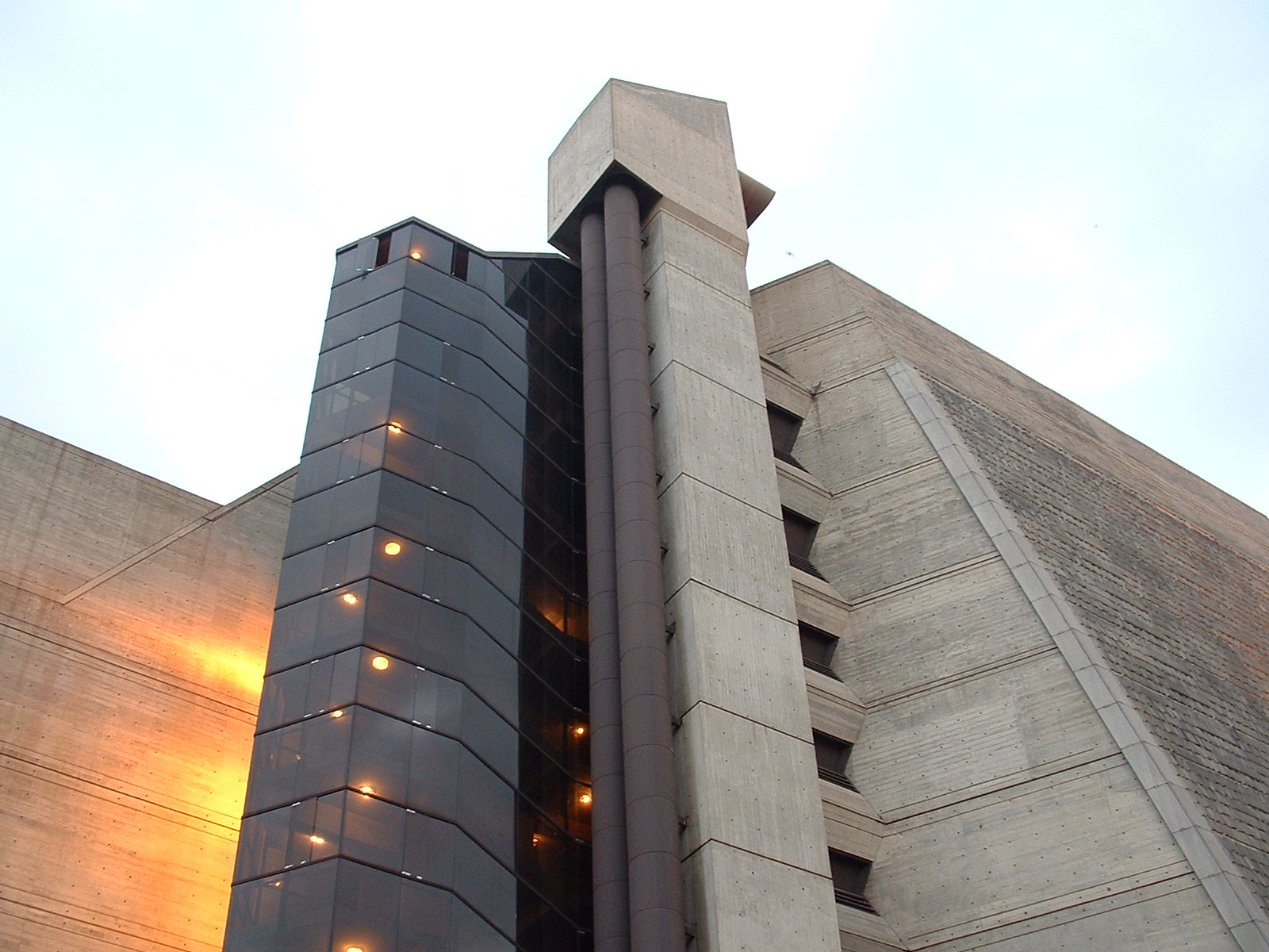 external architecture samples of the Teresa Carreño Theater in Caracas, Venezuela